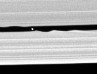 Saturn moon Daphnis orbiting in the Keeler-Gapnl:Keelerscheiding